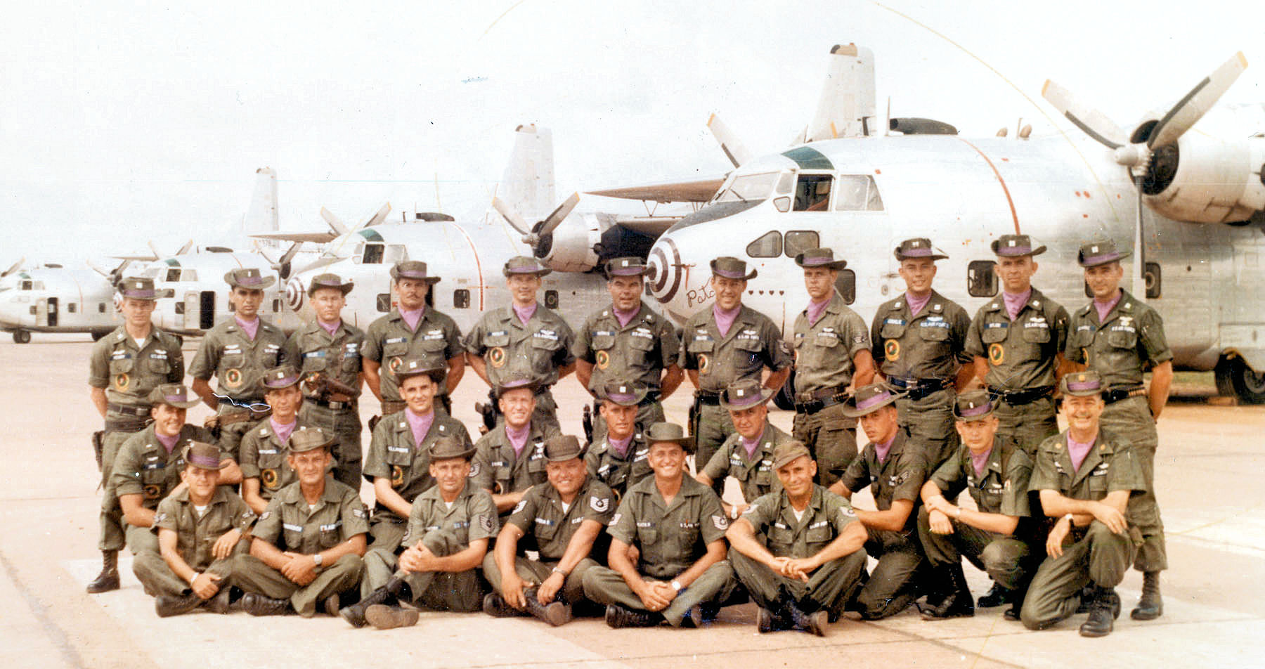 Members of Ranch Hand in 1964/1965, at a time when the program had only four C-123s. The aircraft on the right is the museum’s Patches. (U.S. Air Force photo)